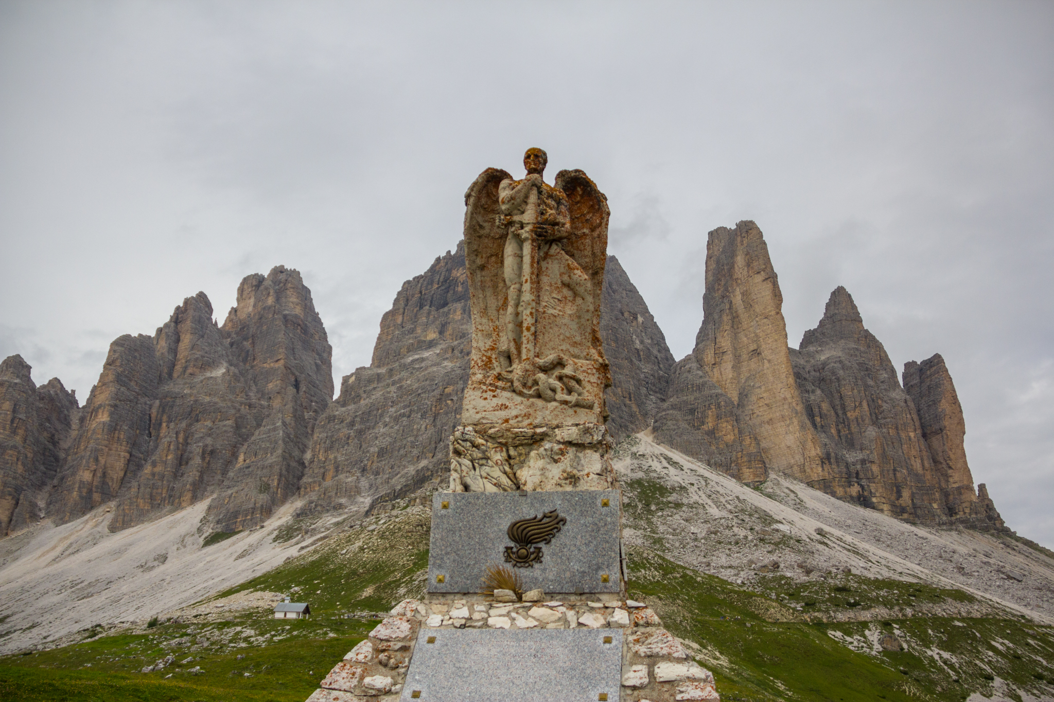 The Angel of the Fallen is the work of sculptor Ancona Vittorio Monelli, who was enlisted in the WWI’s 8th Regiment of the Corps of Sharpshooters in 1916.